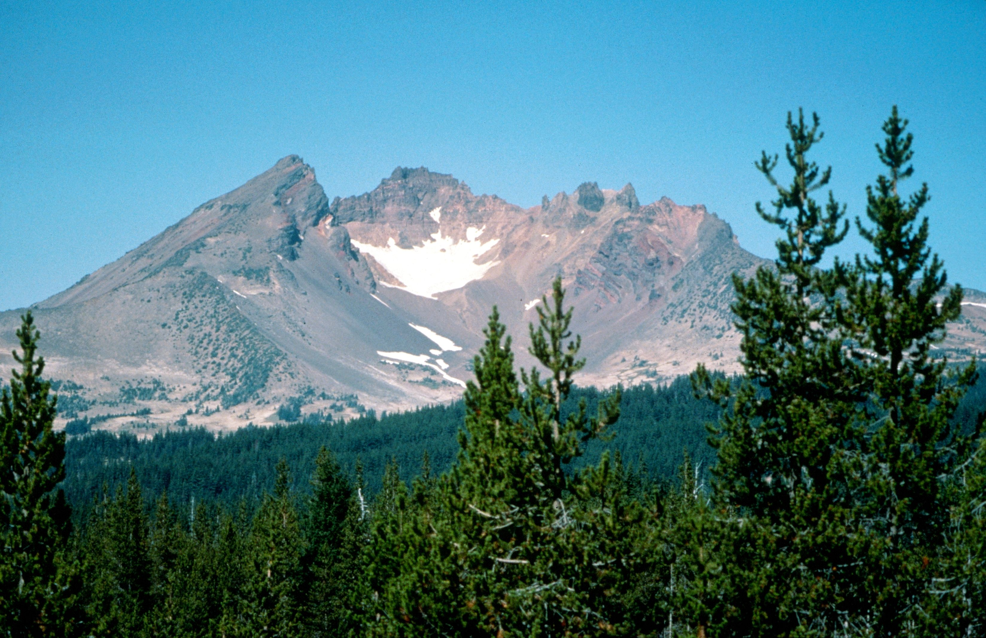 Broken Top Volcano as seen from the Sparks Lake Area